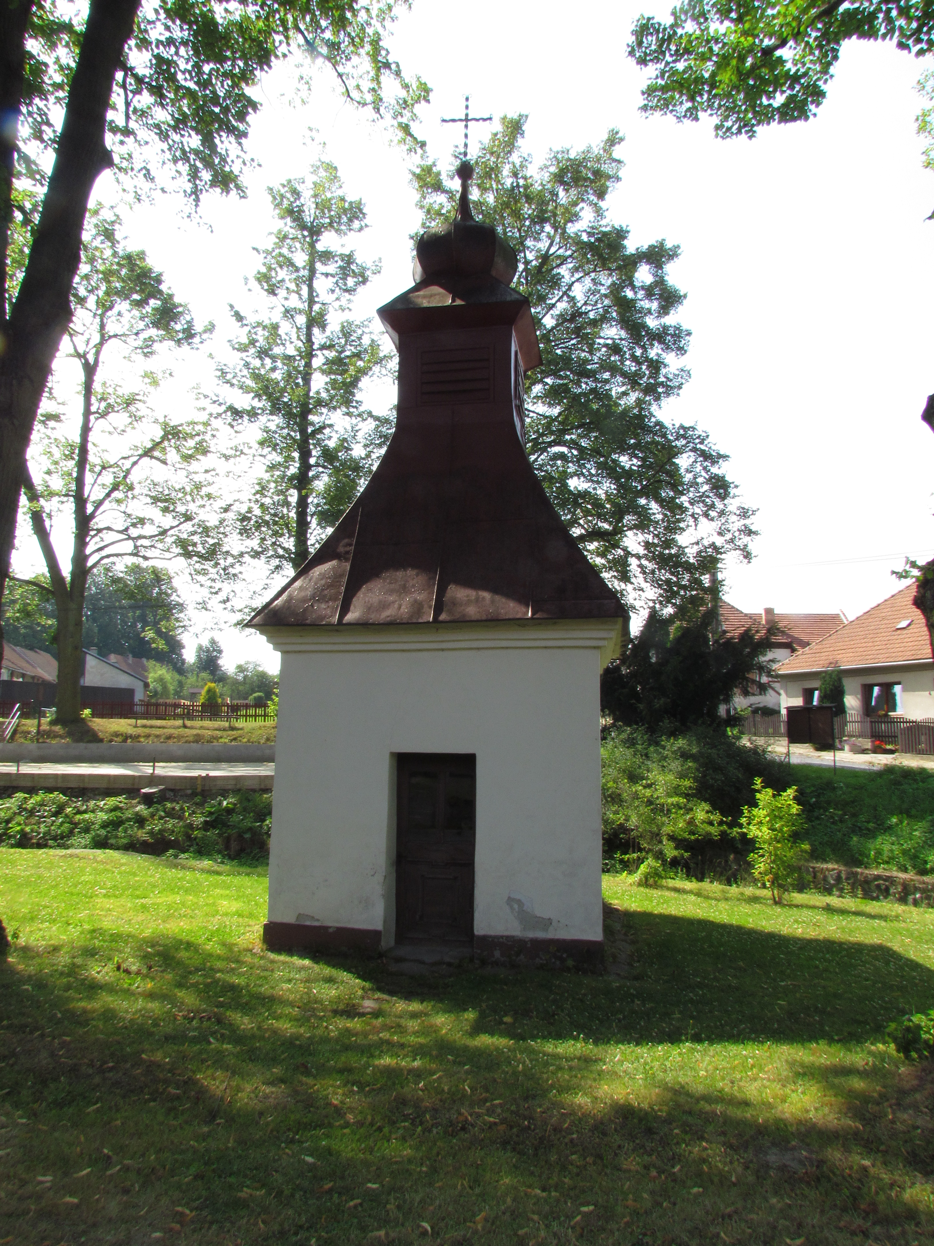 Chapel in Batouchovice, Třebíč District.